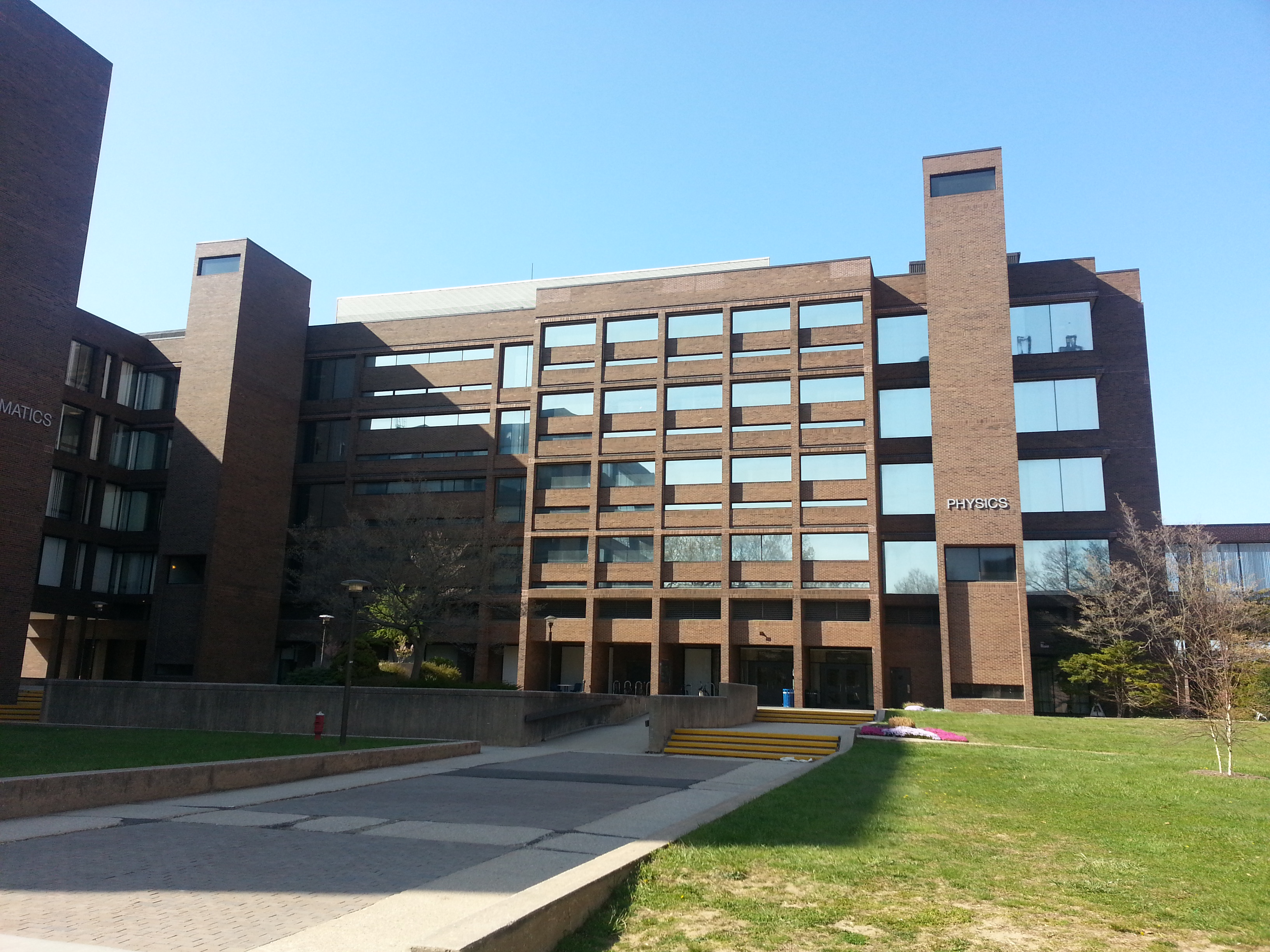 Physics Building at Stony Brook University